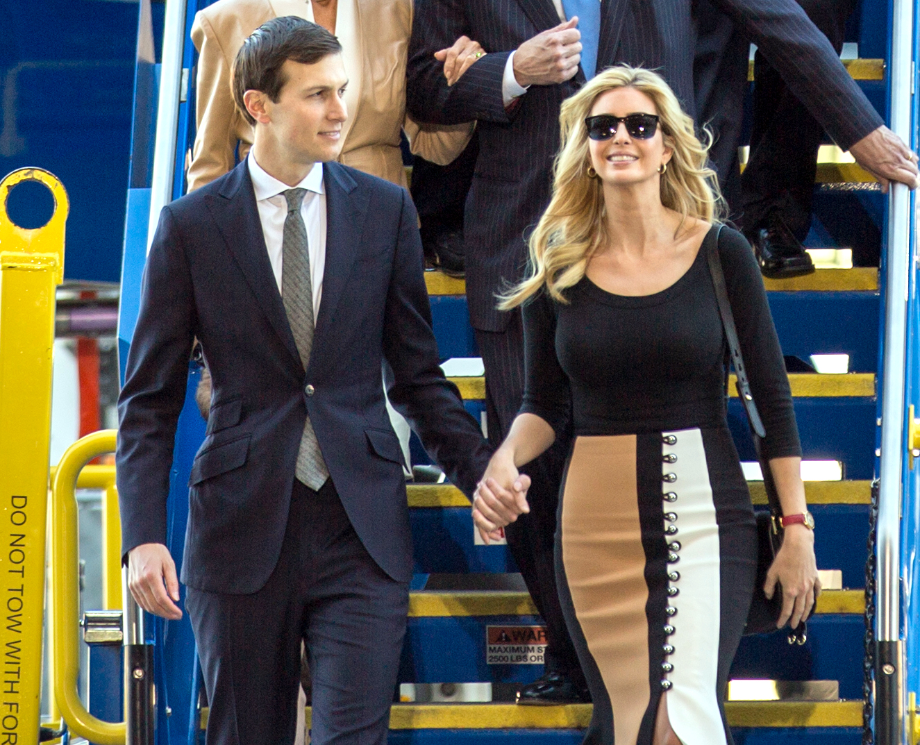 On February 17, 2017, Boeing South Carolina in North Charleston, SC rolled out the first 787-10. US President Donald Trump (POTUS) was in attendance at the ceremony. The 787-10 will be built exclusively in North Charleston, SC. Ivanka Trump wears a paneled tea skirt by David Koma. Photo by Ryan Johnson